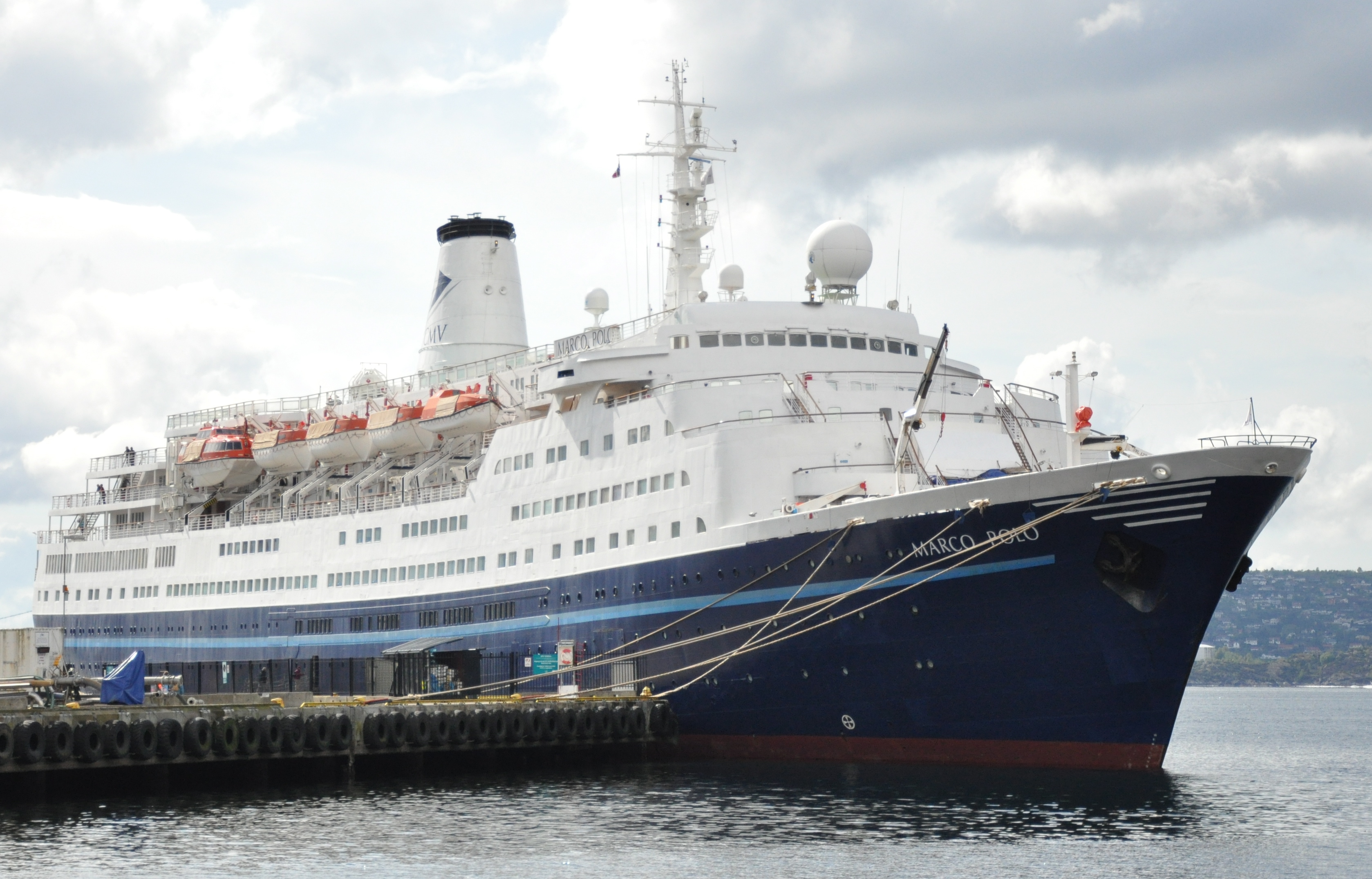 MS Marco Polo in Sandviken docks.